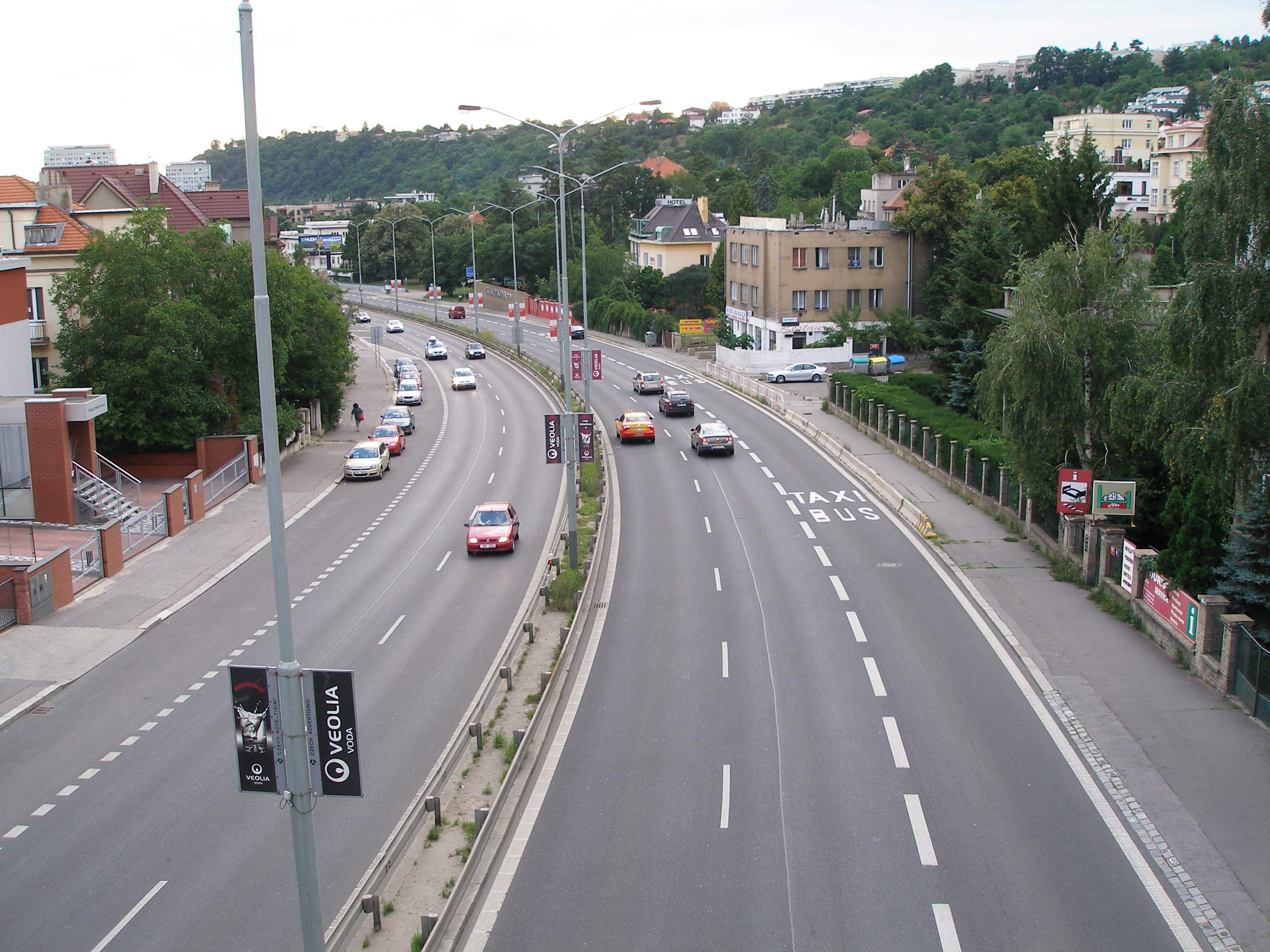 View to west from bridge over V Holešovičkách street.